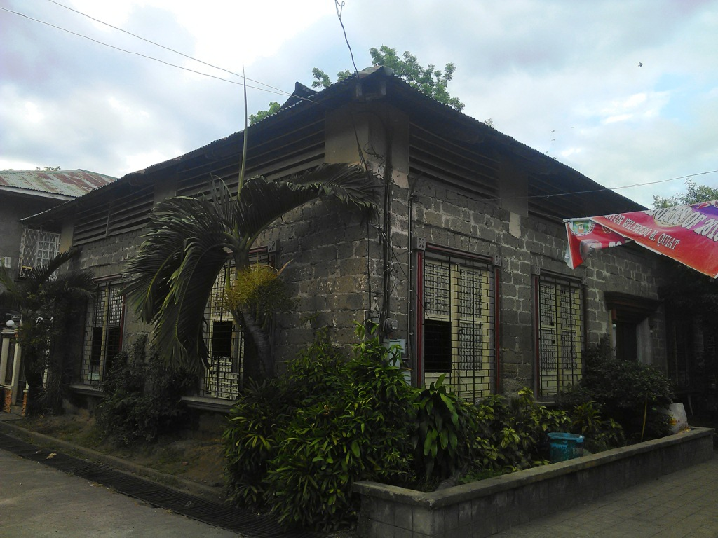 Formerly Escuela Pia Burzagom Street, Pila, Laguna